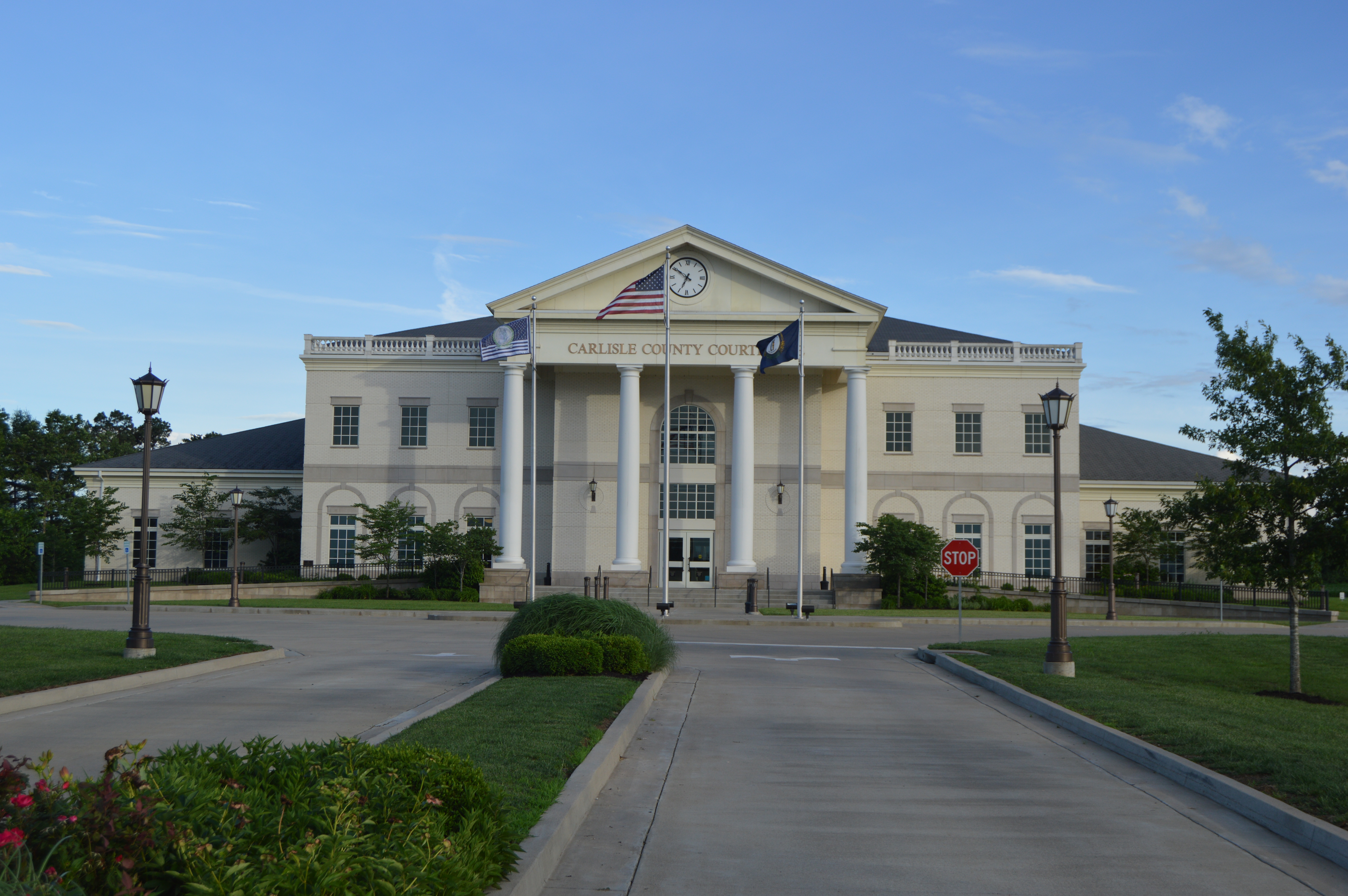 Front of the Carlisle County Courthouse, located on U.S. Route 62 just east of the Bardwell city limits in Carlisle County, Kentucky, United States. It was built in 2011 following the arson of the previous courthouse.